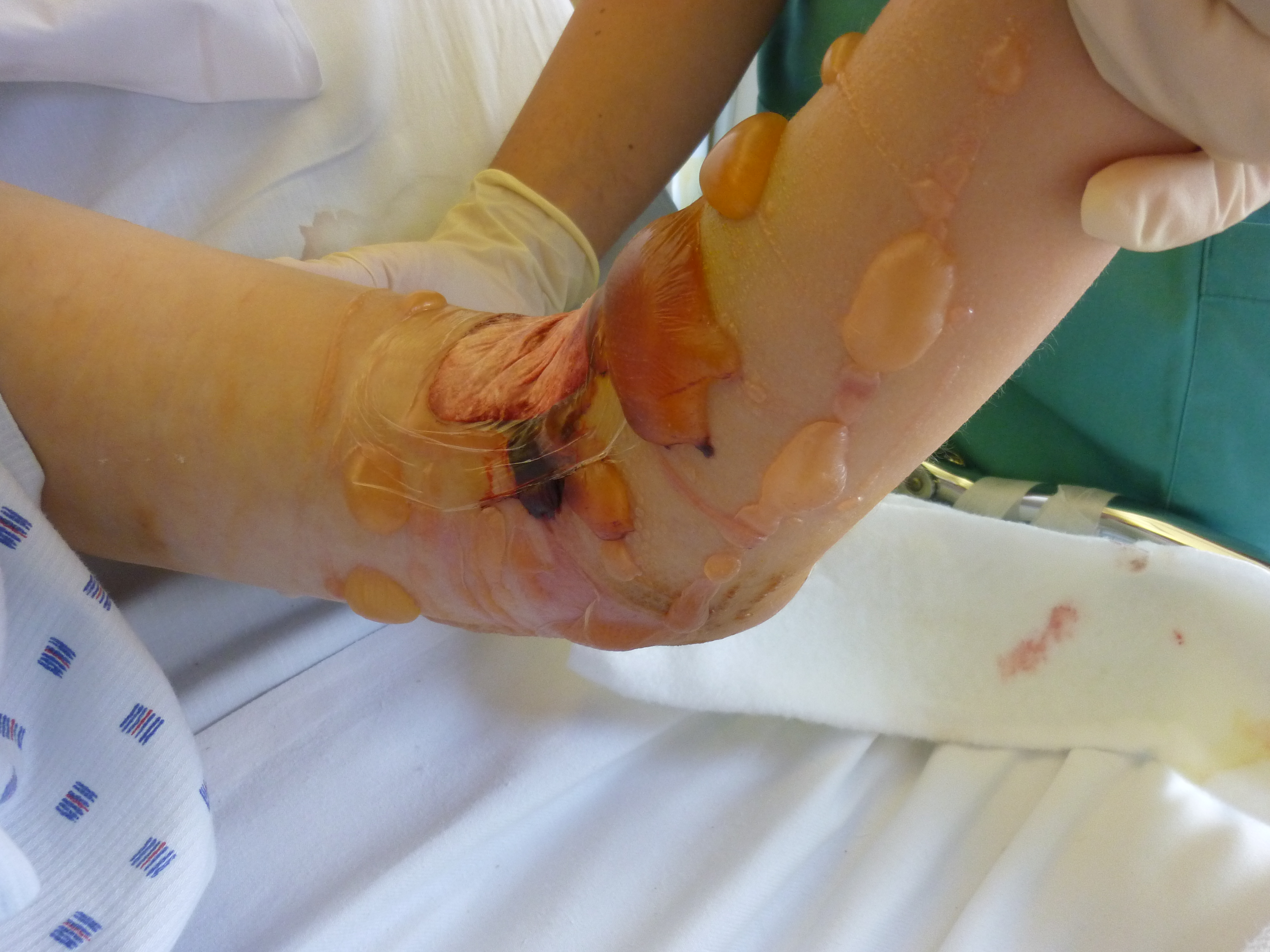 A compound fracture has caused acute compartment syndrome with blister formation in the arm of a child